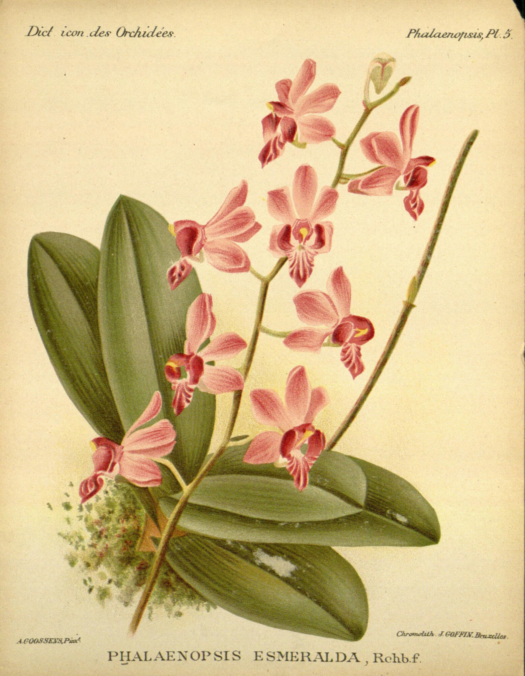 Phalaenopsis pulcherrima as synonym Phalaenopsis esmeralda